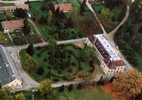 Somogyzsitfa, Hungary, aerialphotography (Véssey Mansion)